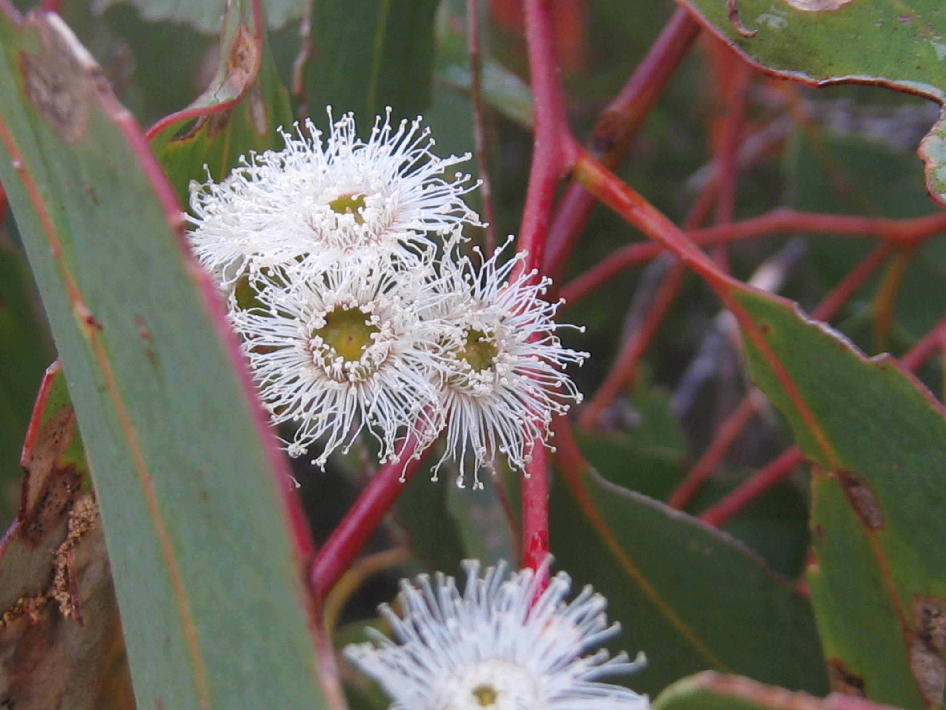 Eucalyptus haemastoma, Basin Track, Ku-ring-gai Chase NP.